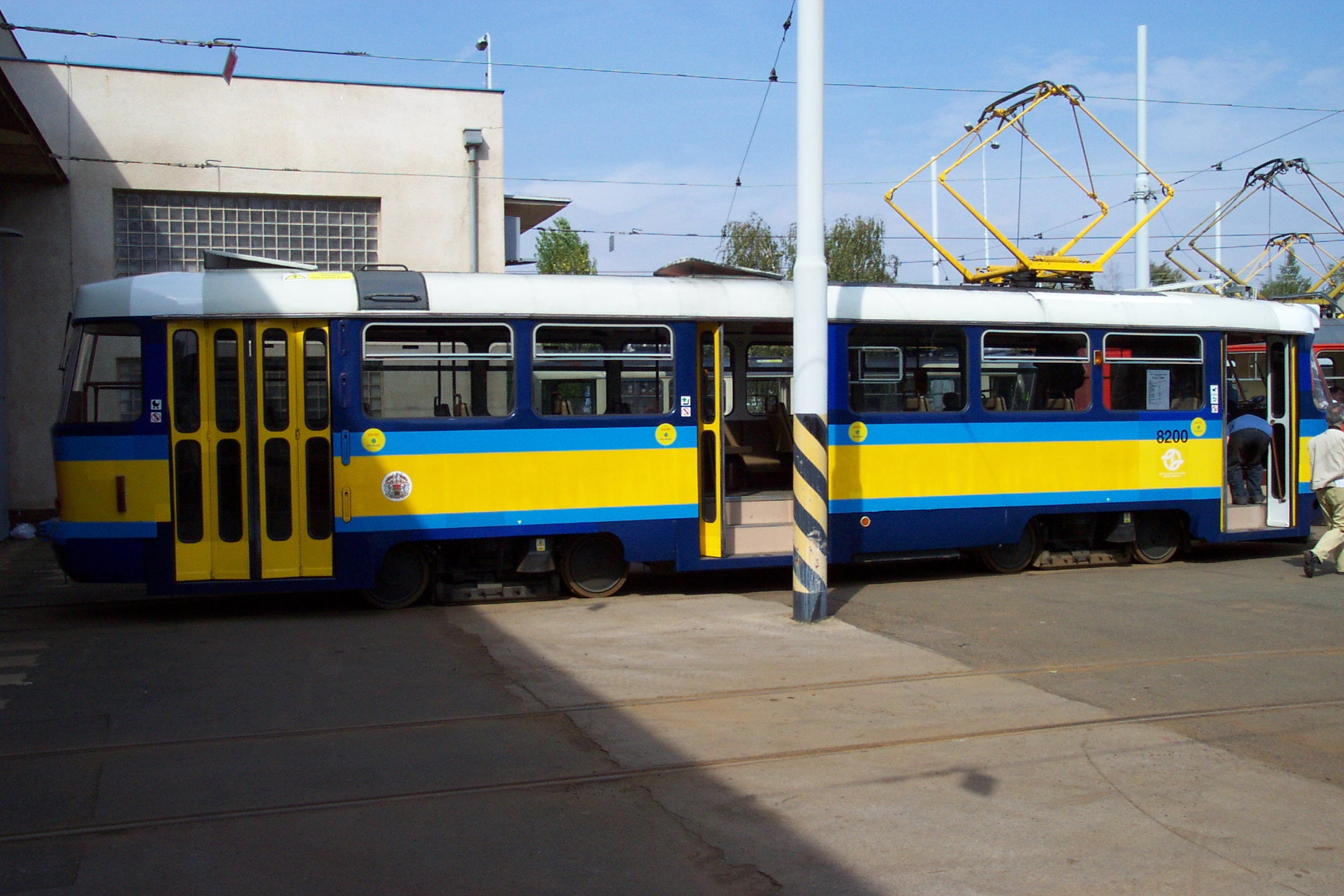 Tram type T3M (T3G), ev. No. 8200 in Prague central tram works Štěrboholy